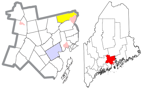 Map of the divisions of Waldo County, Maine, United States, with the town of Winterport highlighted in yellow. The city of Belfast is light blue; other towns are white; and pink areas are census-designated places within towns. The pink area surrounded by Winterport (also a part of the town) is the census-designated place of Winterport.